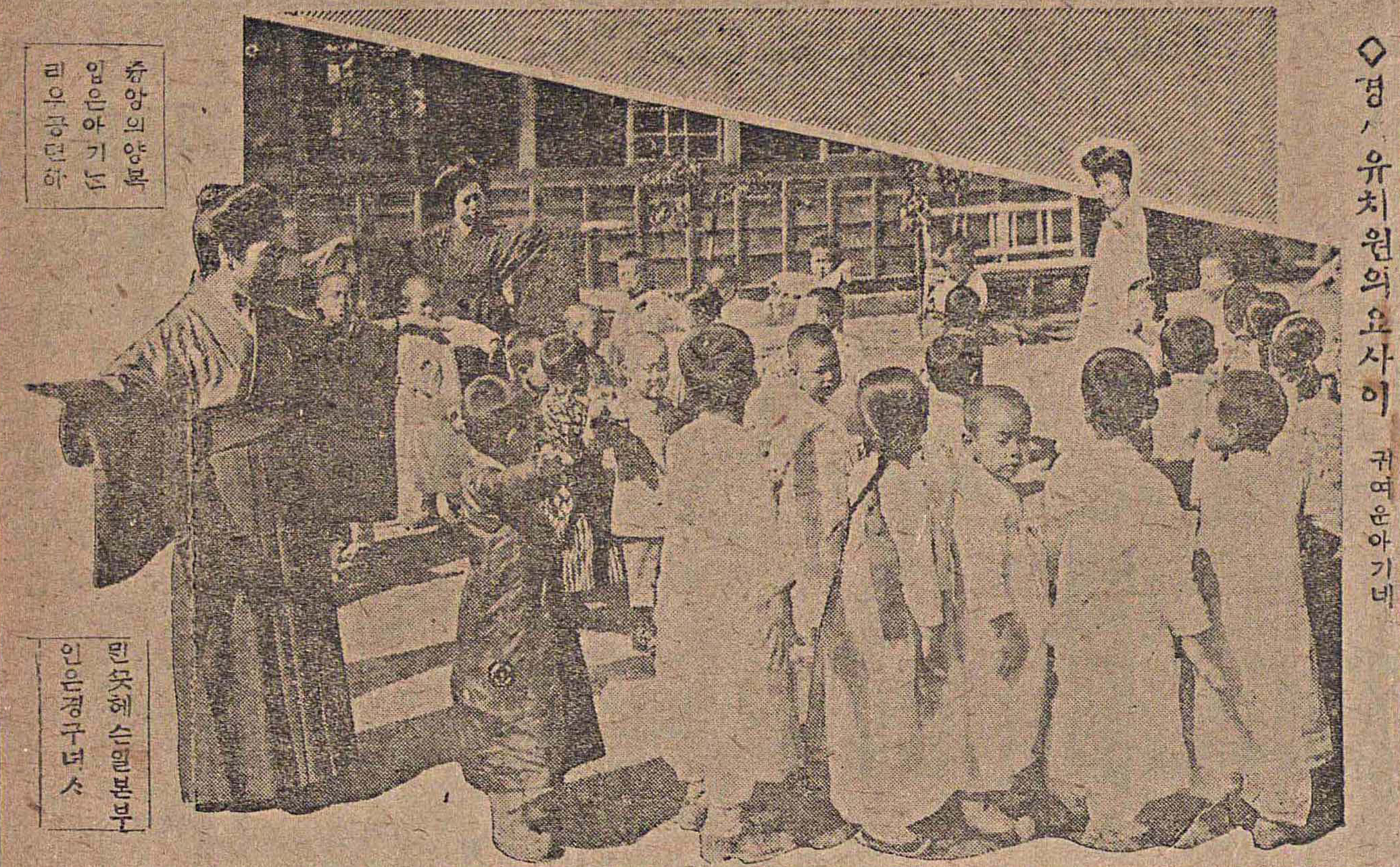 Gyeongseong Kindergarten (1917)